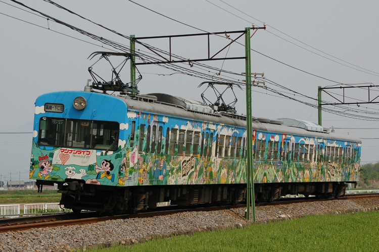 Jyosin electric railway 150 series electric car, 1st train. 上信電鉄150形電車、第一編成。